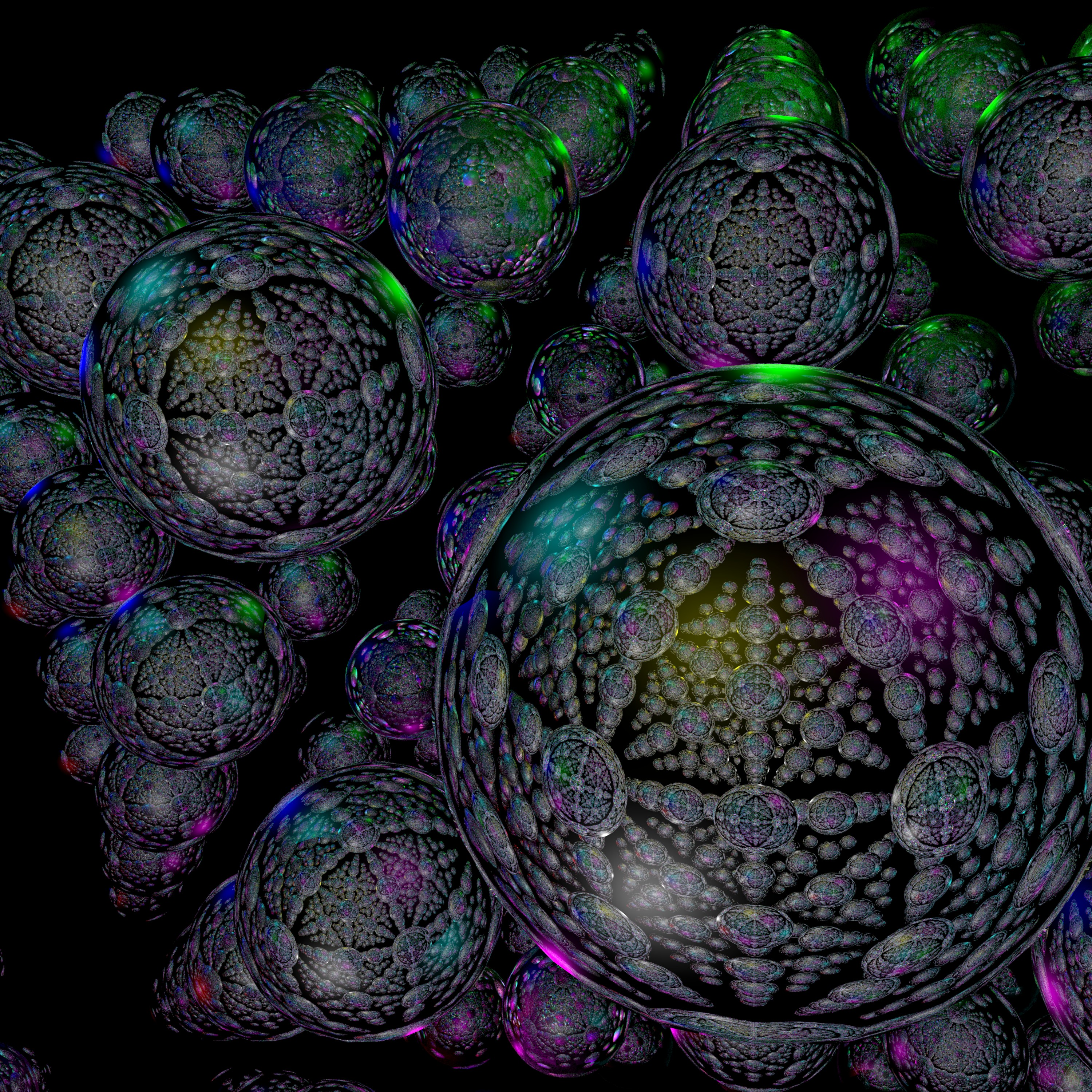 This imaging of Indra's Net was created using Blender 3D because I was curious about what it would look like. Having done it, I added some colored lights so that it looked better, and thought it might work to illuminate the stub currently on wikipedia.